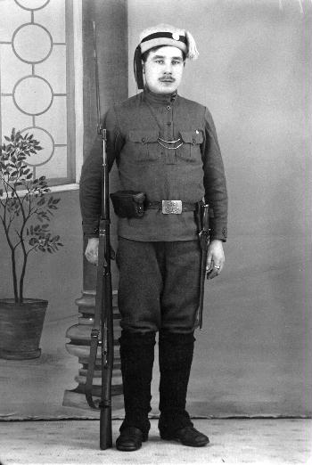 Red soldier